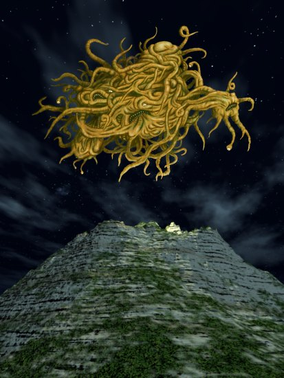 Vision d'artiste de Yog-Sothoth.